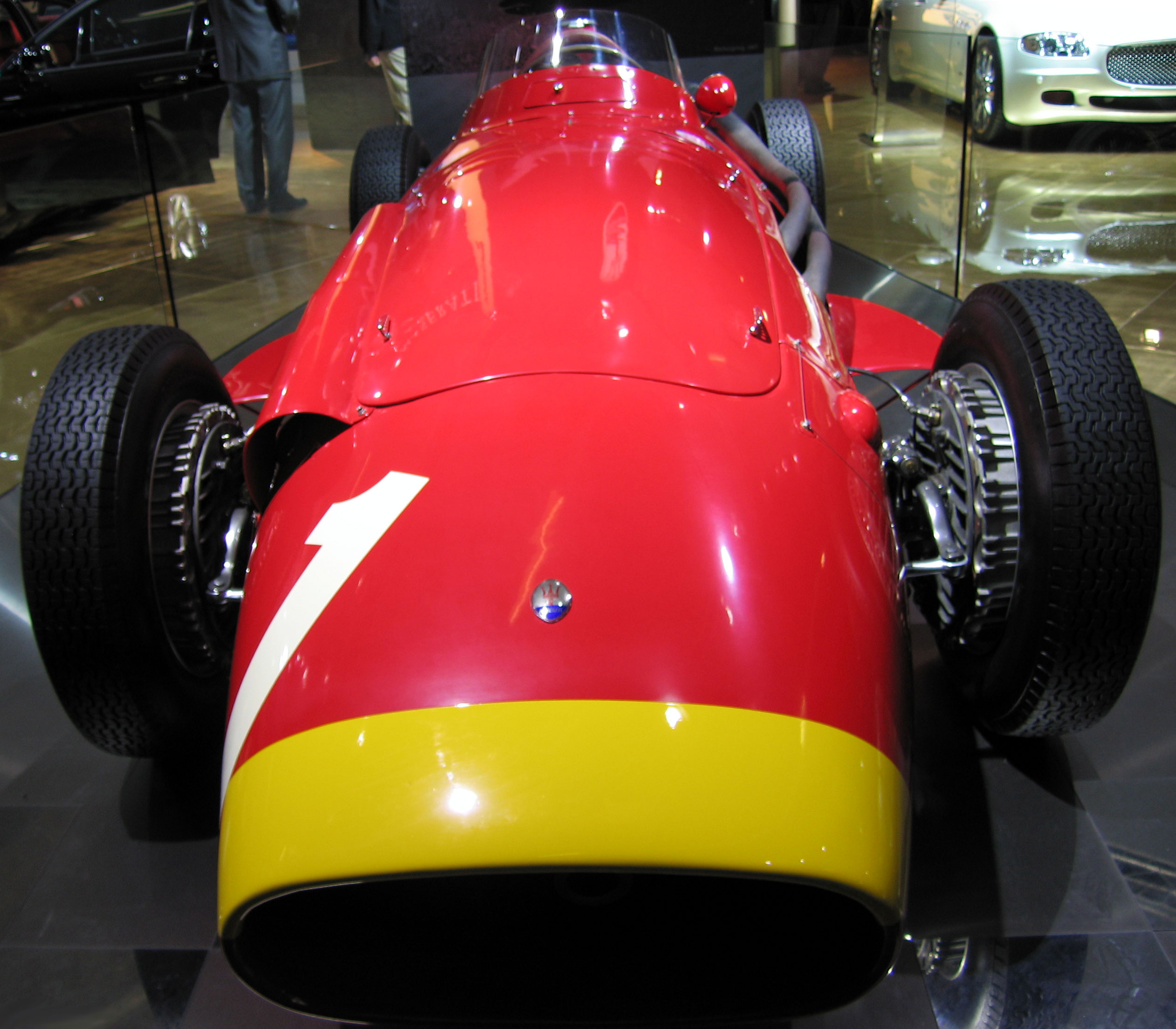 Maserati 250F car of Juan Manuel Fangio 1957 at the IAA 2007